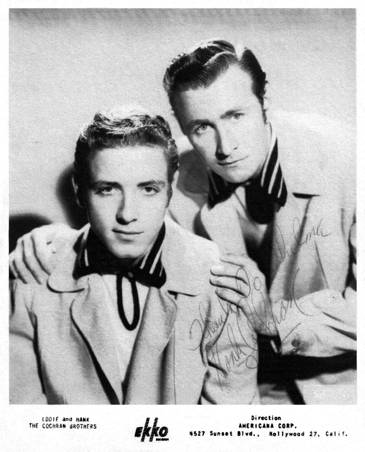 Publicity portrait of the Cochran Brothers (Eddie and Hank) for Ekko Records.